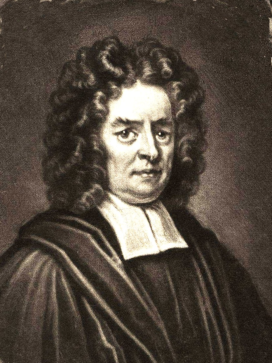 Humphrey Prideaux (1648–1724), Doctor of Divinity and scholar, belonged to an ancient Cornish family, was born at Padstow, and educated at Westminster School and at Oxford.